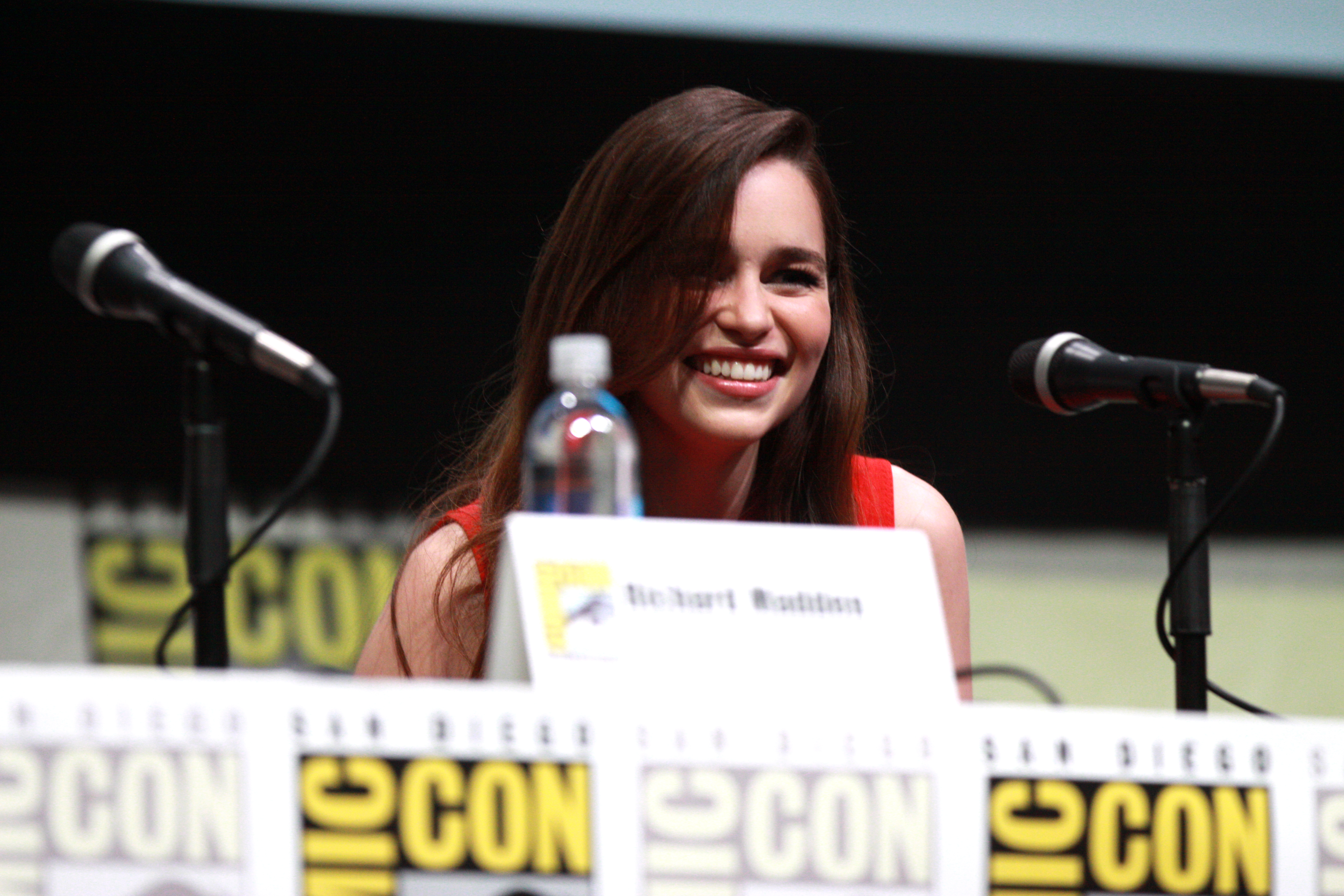 Emilia Clarke speaking at the 2013 San Diego Comic Con International, for "Game of Thrones", at the San Diego Convention Center in San Diego, California.